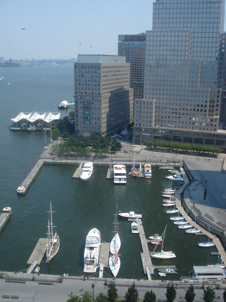 This is the view from Carla and Robert's guest bedroom in Battery Park City overlooking the North Cove.